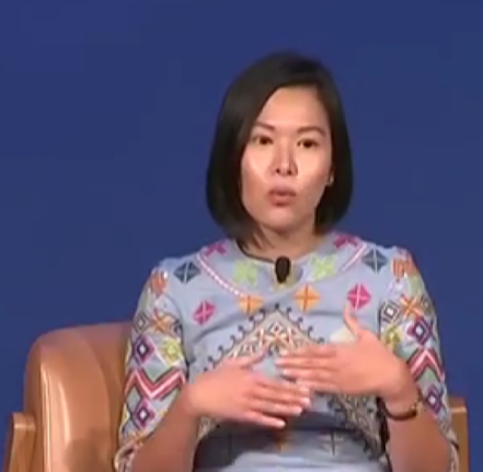 Nicole Curato Filipino sociologist in 2019